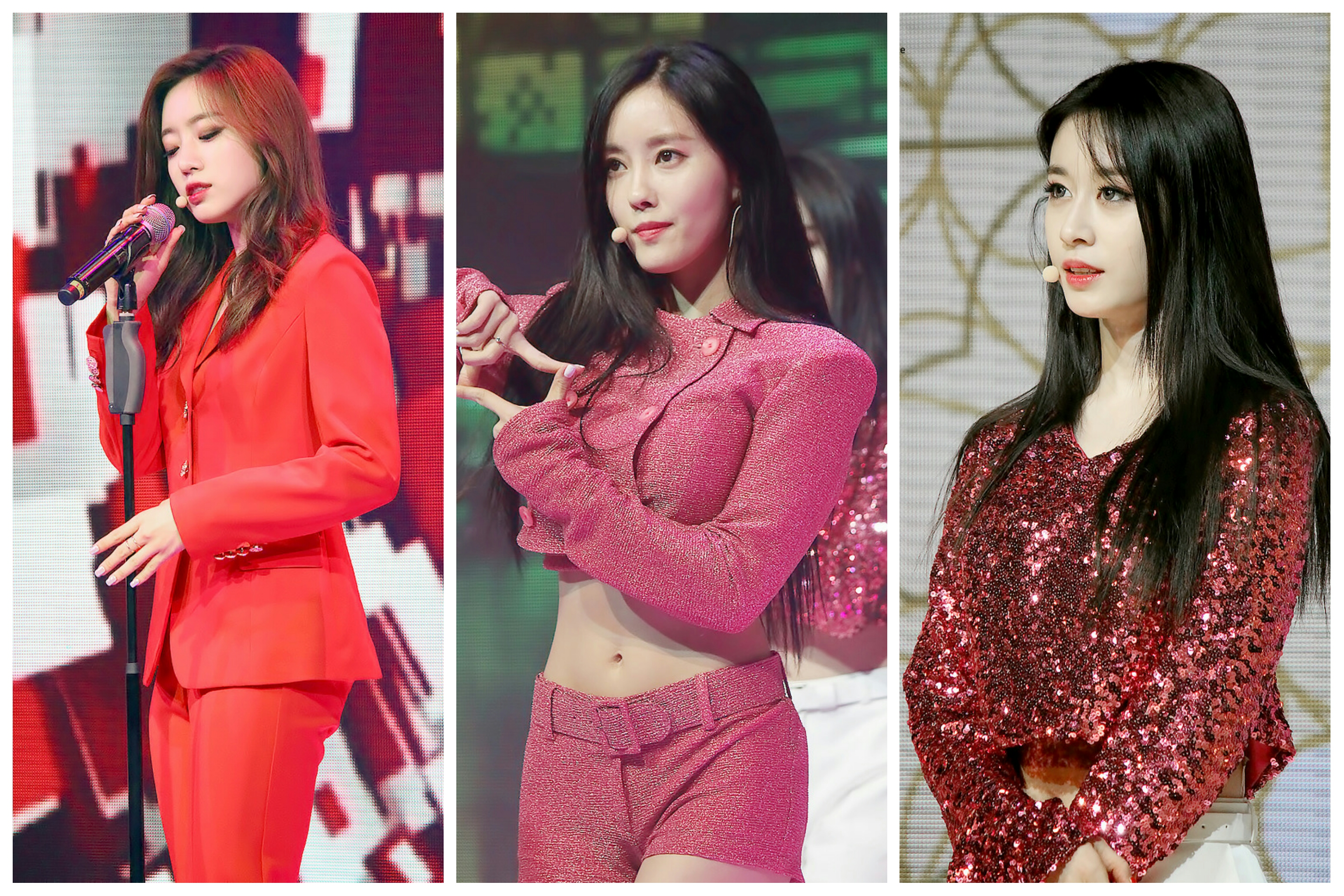 Members of T-ara N4 during a showcase on June 14, 2017